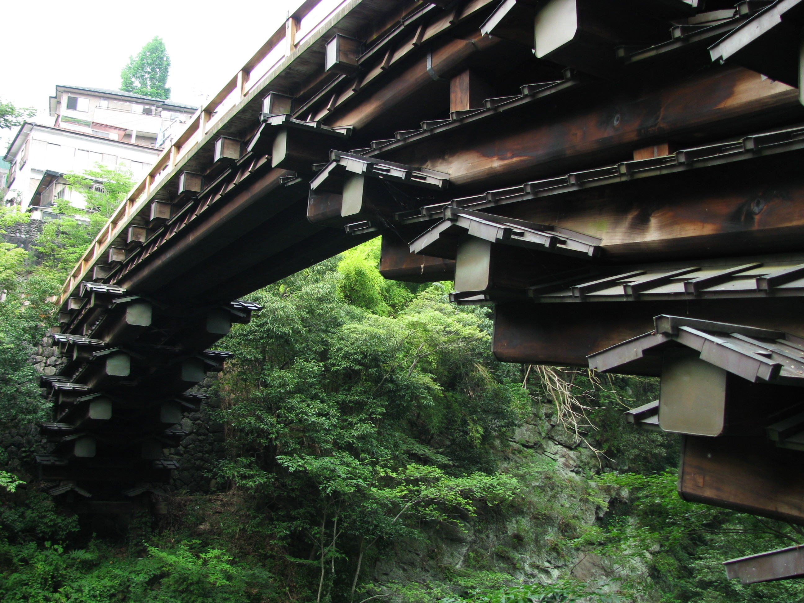 The Saru-hashi (Monkey bridge) is a bridge of the old Kōshū Kaidō. This location is Saruhashichō-Saruhashi in Ōtsuki, Yamanashi Prefecture, Japan.